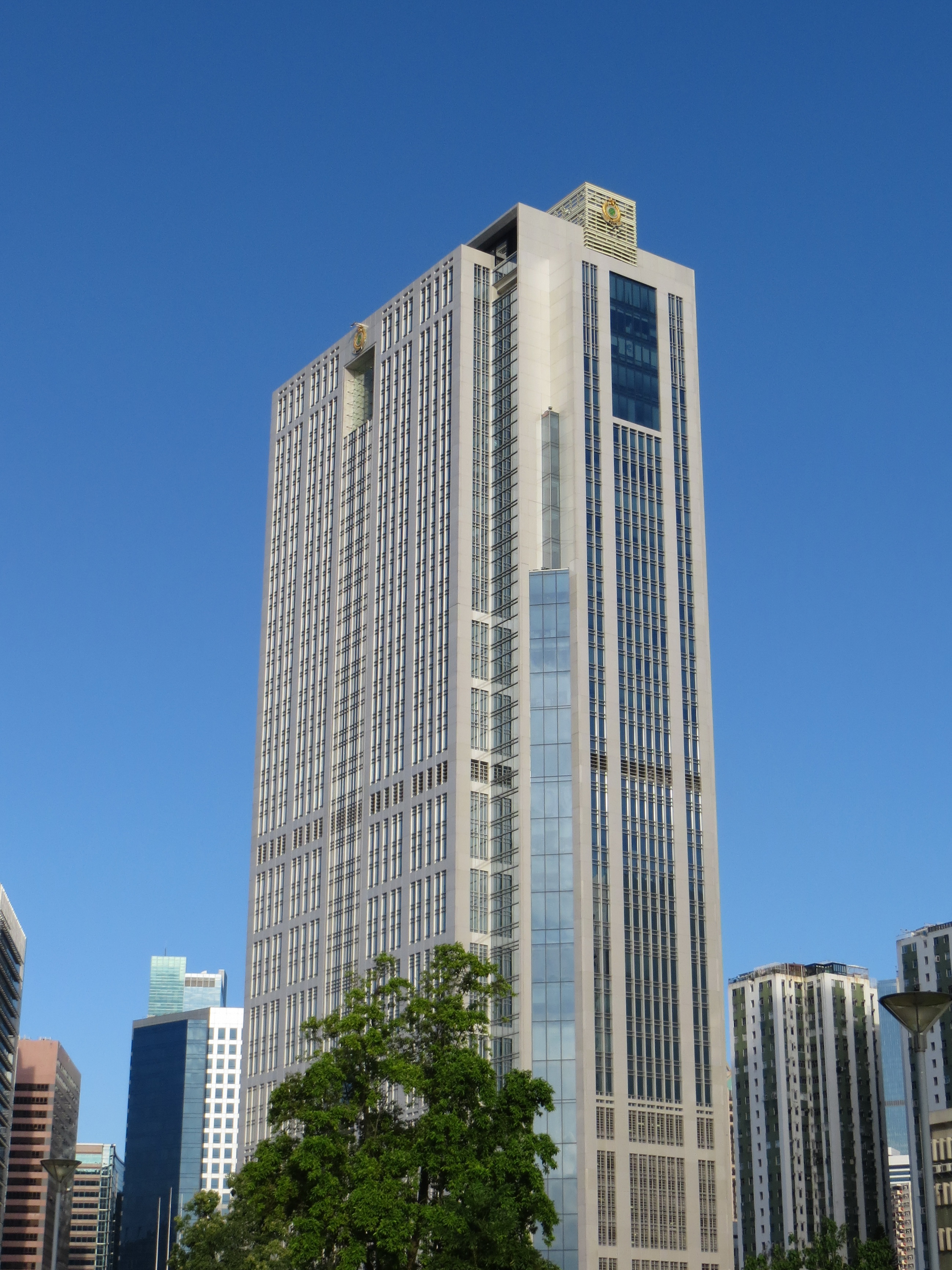 Customs Headquarters Building, North Point, Hong Kong.